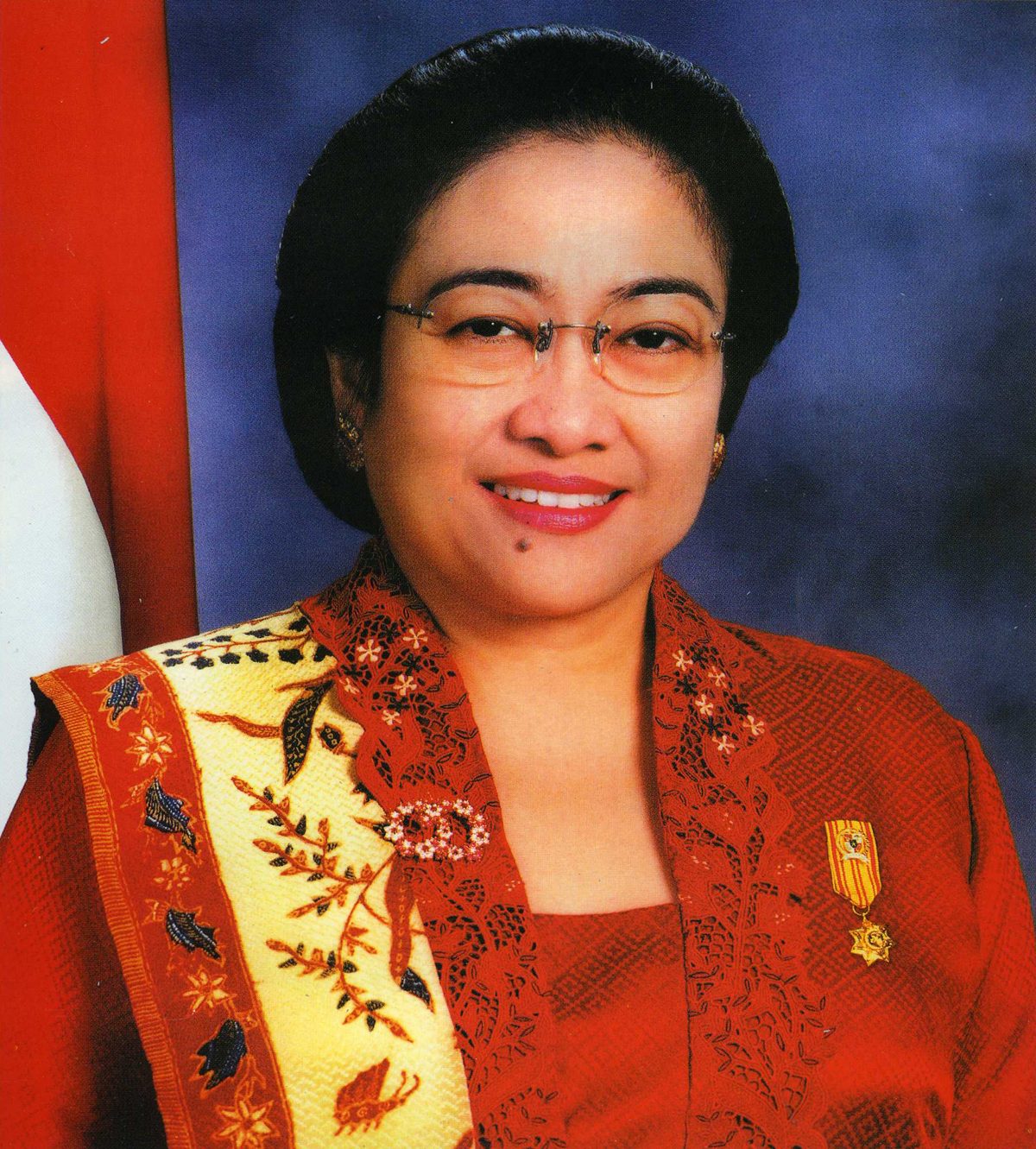 Megawati Soekarnoputri, fifth President of Indonesia